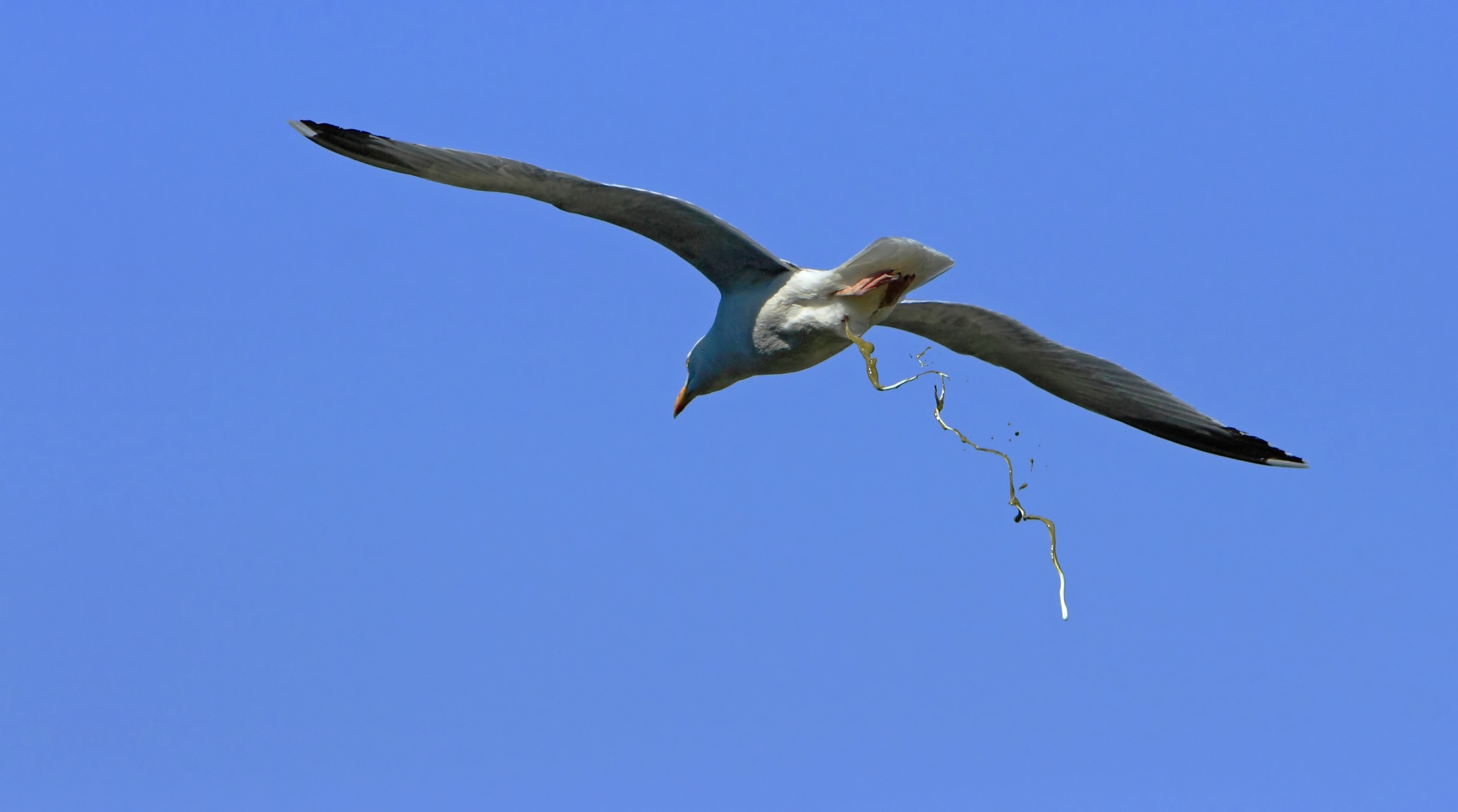 A Herring Gull (Larus argentatus) defecating near to Bréhat island